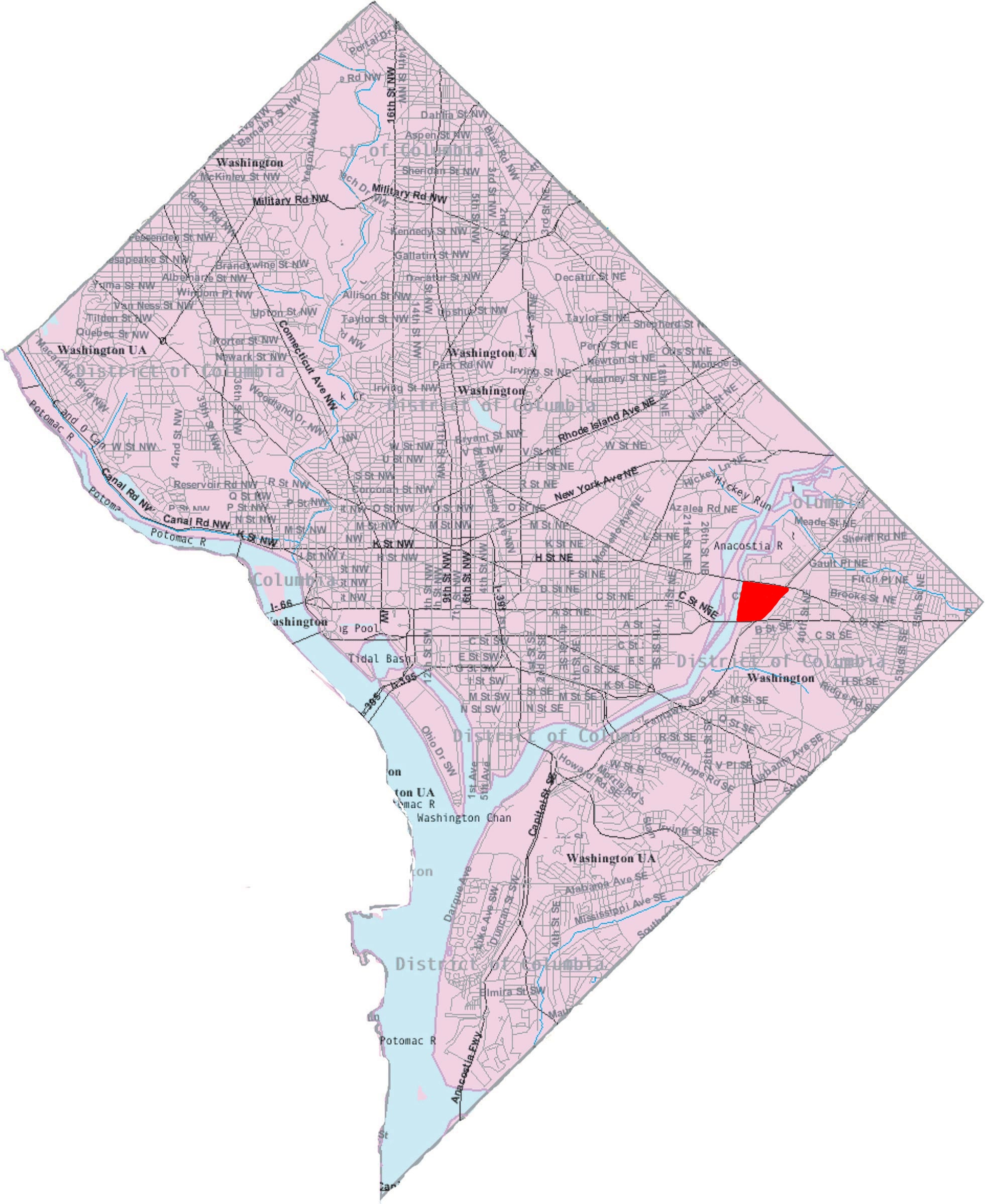 This image is a modified version of a self-generated reference map from the U.S. Census Bureau's American Factfinder at by Wikipedia user Tim1965.